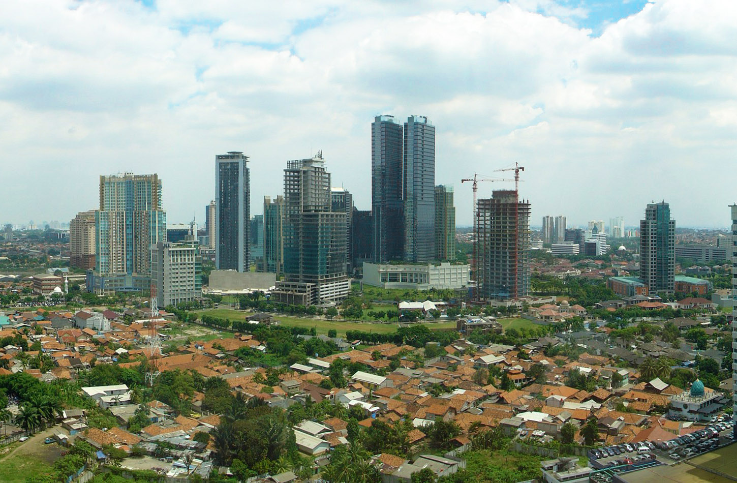 Mega Kuningan area in Setiabudi Kecamatan, South Jakarta, Jakarta, Indonesia.